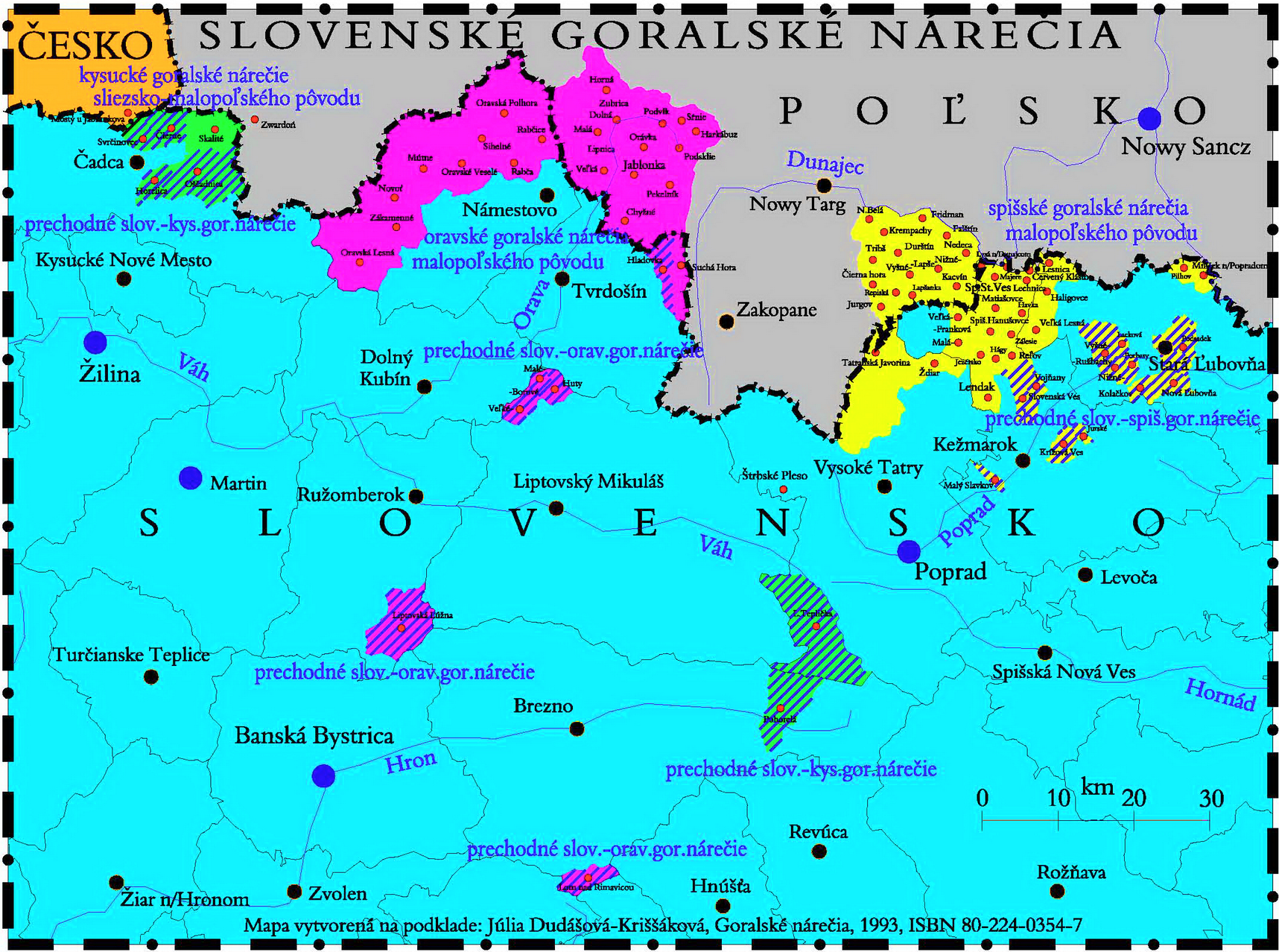 Goral´s dialects of northern Slovakia and southern Poland.